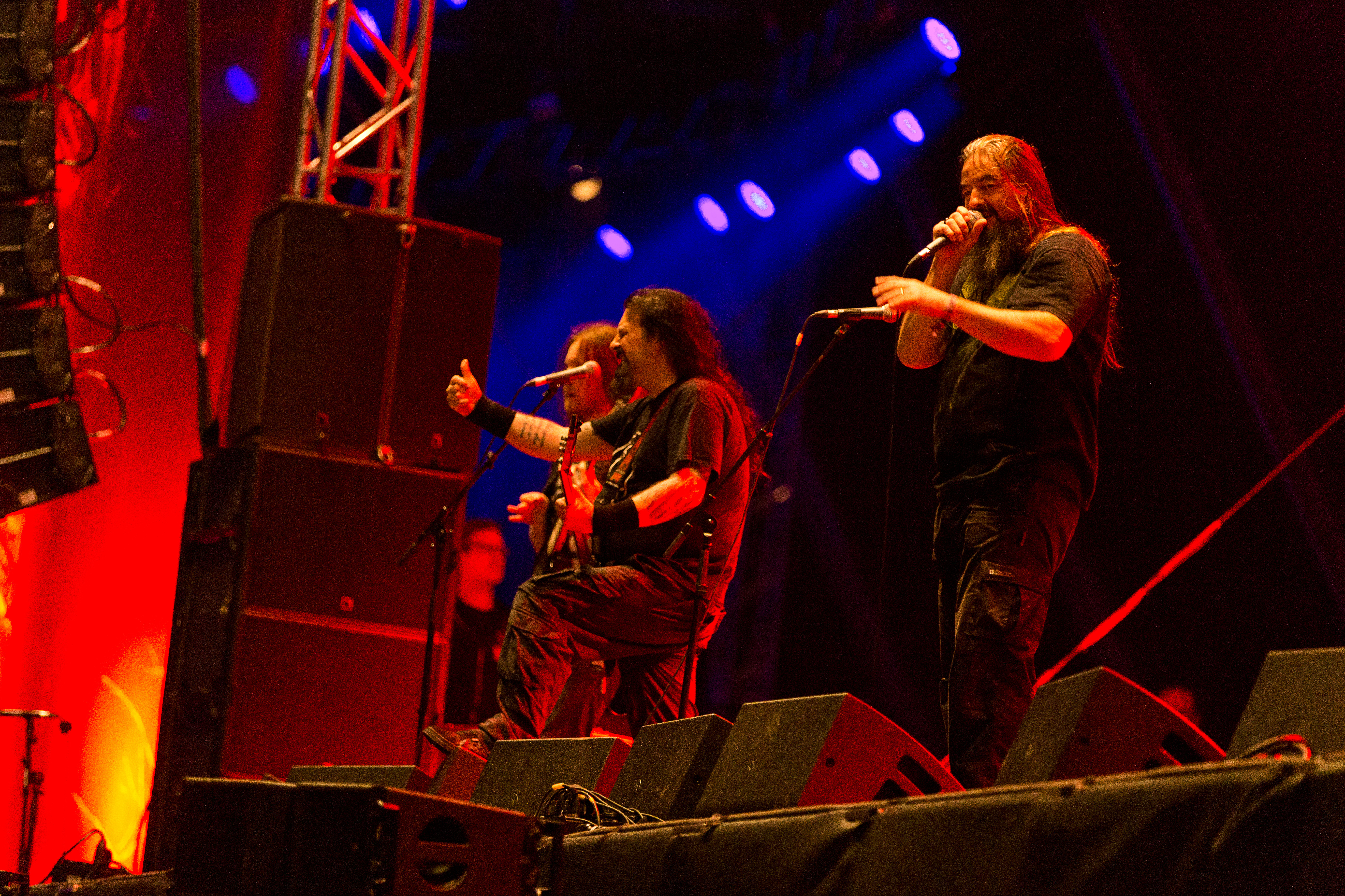 The British thrash metal band Onslaught at the Rockharz Open Air 2016 in Ballenstedt/Germany.